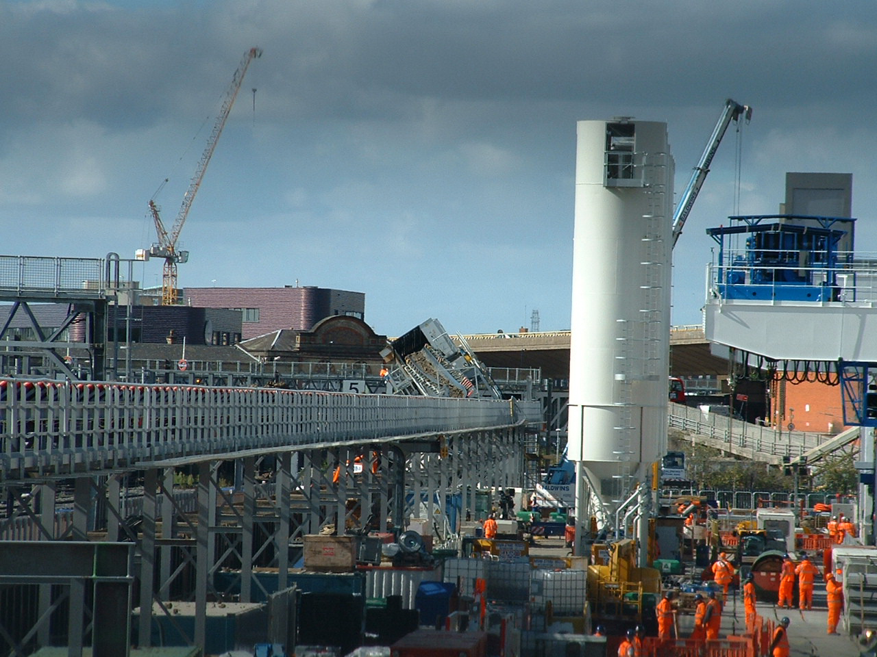 The railhead used to load soil onto trains for removal from the Crossrail portal at Royal Oak Station. The structure supporting the far end of the conveyor belt (approximately in the middle of the picture) suffered a partial collapse two days before this picture was taken and is leaning to the left.